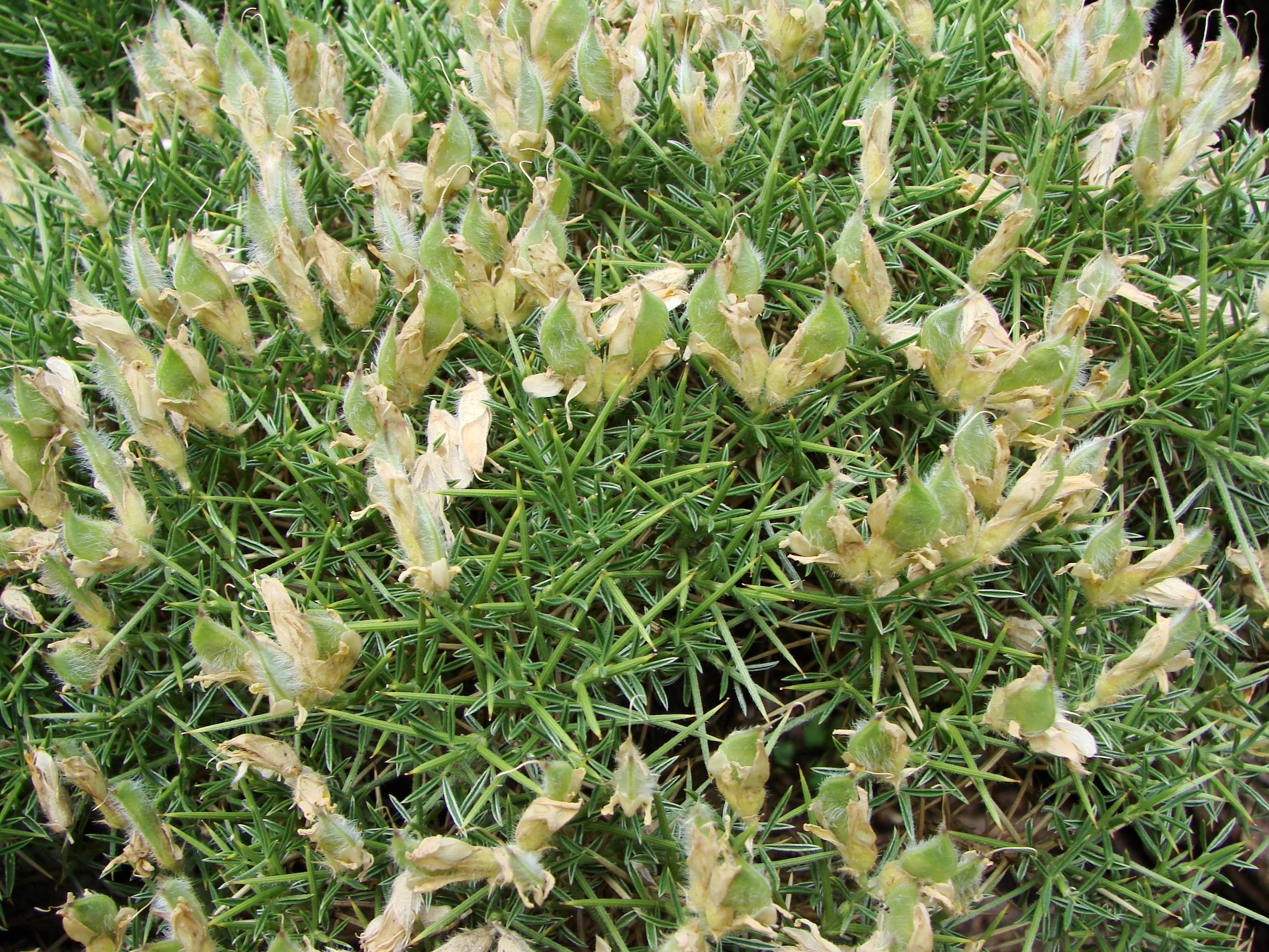 Picture taken in the university botanical garden of Wrocław (Poland): Echinospartum horridum (Vahl) Rothm.